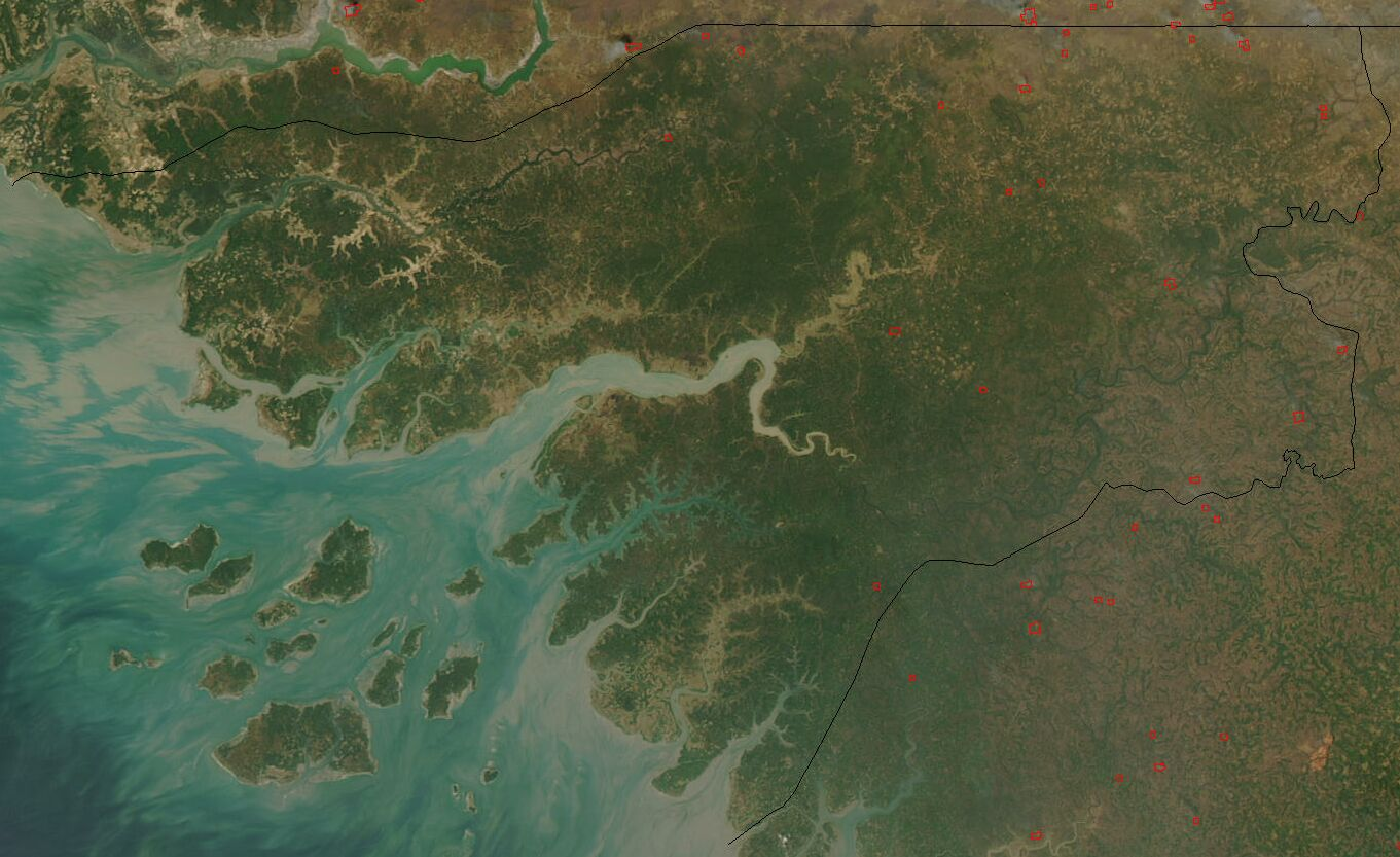 Satellite image of Guinea-Bissau in January 2003.